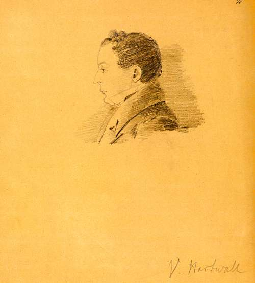 Drawing, portrait of the Finnish entrepreneur Victor Hartwall (1800–1857).